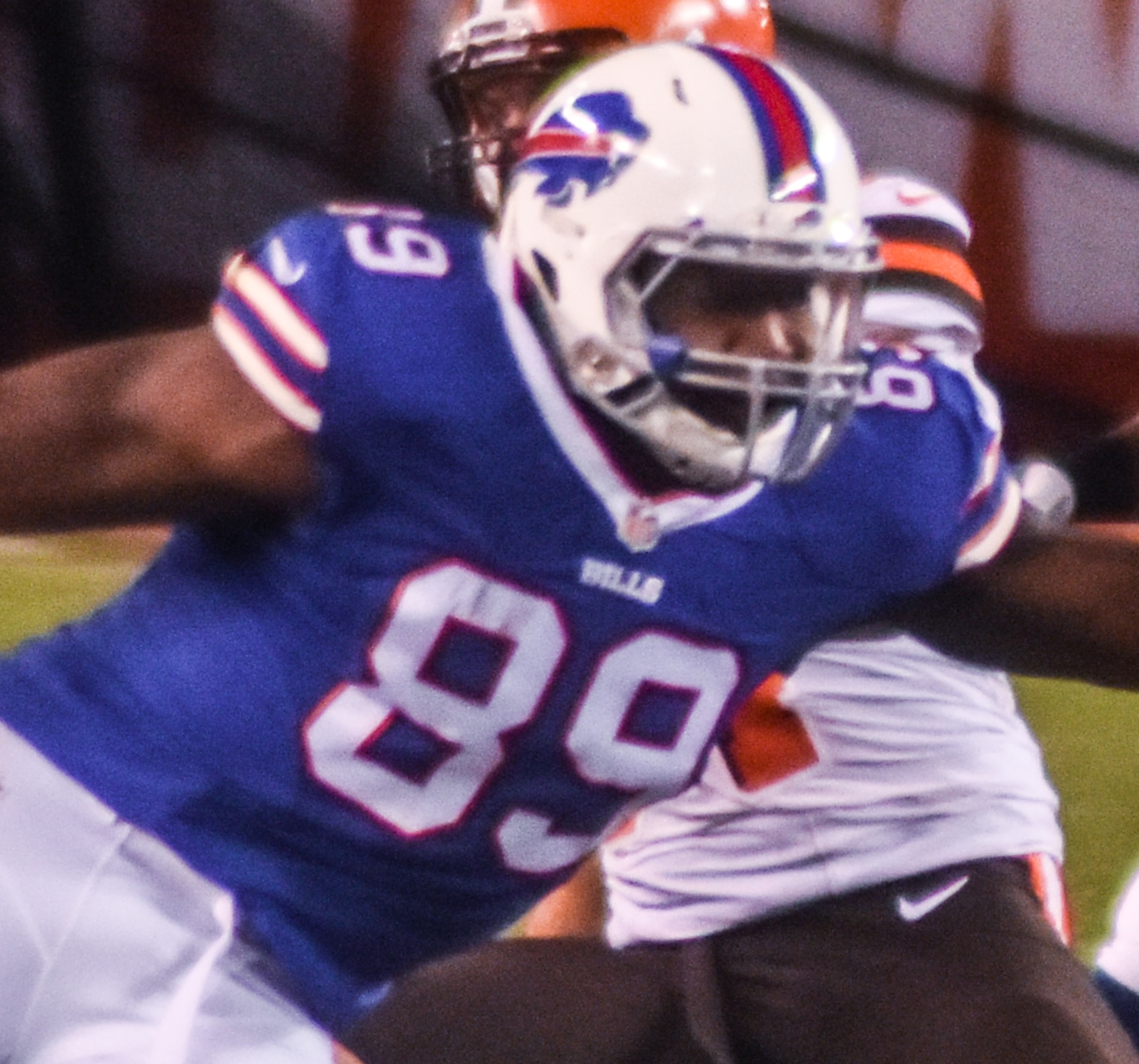 Buffalo Bills tight end Chris Gragg on punt return coverage during a preseason game at the Cleveland Browns at Paul Brown Stadium on August 20, 2015.